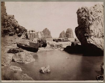 Giorgio Sommer (1834-1914), "Capri - Faraglioni", ca. 1870. Catalogue number: 2189.